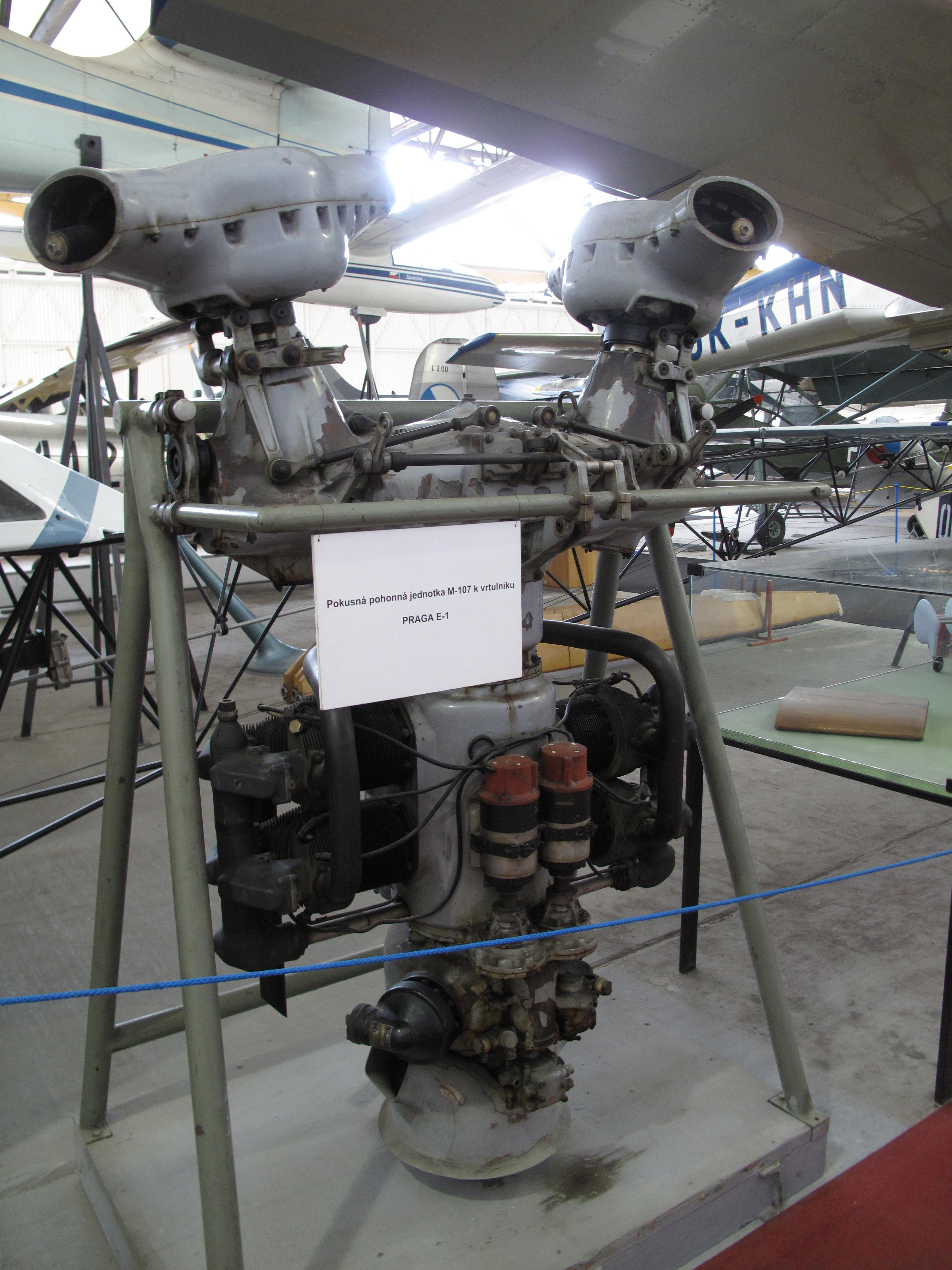 The rotor transmission and engine of the Praga E-I helicopter, complete with Praga M-197 engine